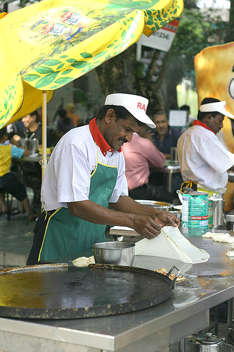 Making Roti Canai, a traditional food of Malaysia